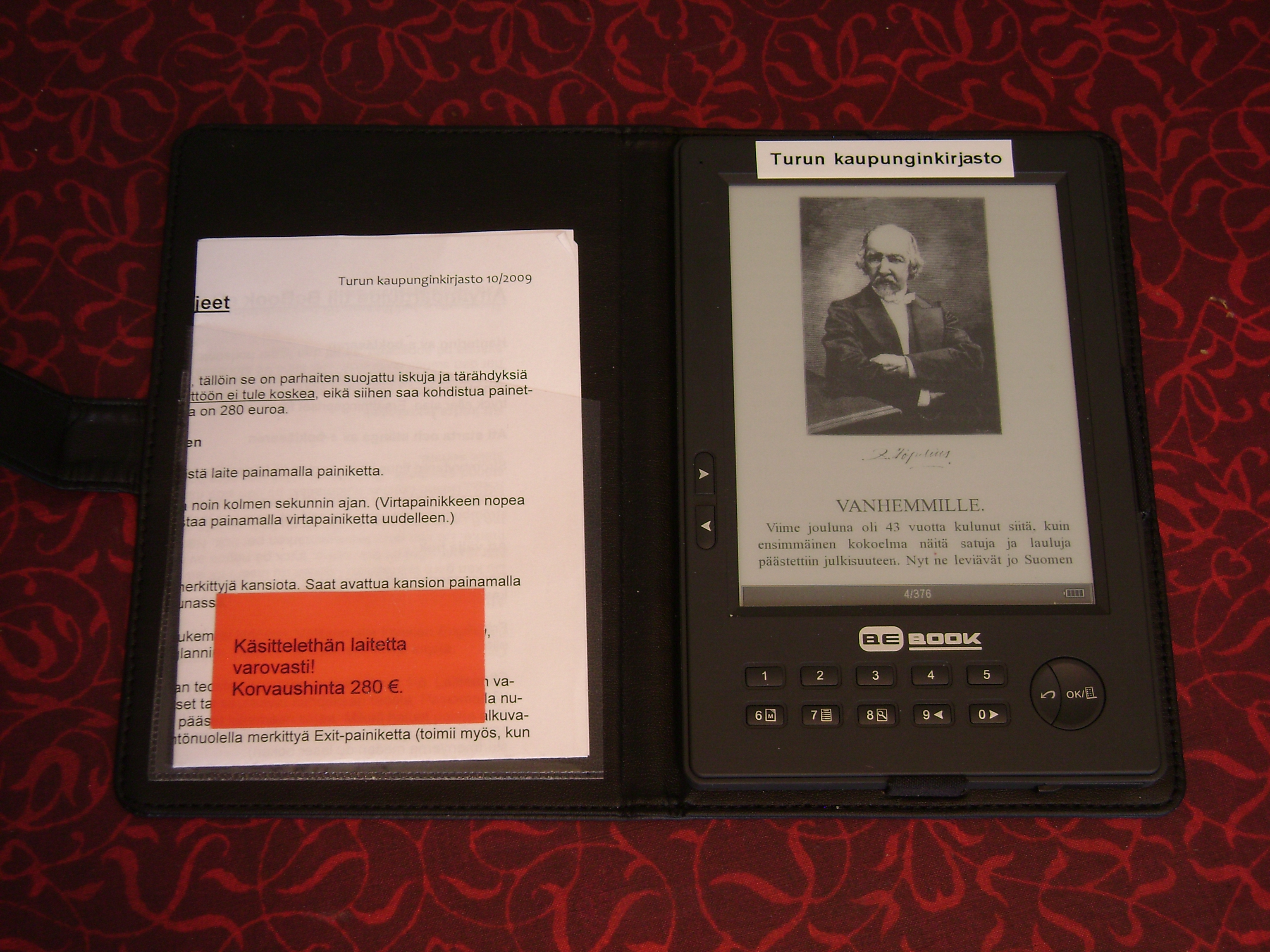 Bebook -ebook reader owned by Turku city library. Book in reader is Lukemisia Lapsille 1 by Zacharias Topelius from Project Gutenberg.